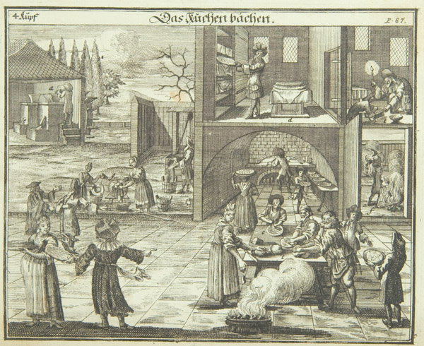 Illustration from Juedisches Ceremoniel, a German book published in Nürnberg in 1724 by Peter Conrad Monath. The book is a beautifully illustrated description of Jewish religious ceremonies, rites of passage and feast days, which first appeared in 1716, here in its second edition of 1724. The extremely detailed plates, by Georg Puschner, depict priestly robes, the celebrations of the New Year, Passover, the weekly Sabbath, circumcision, presentation of the first born, prayer at the synagogue, a wedding procession and a wedding, purification of the bride, the washing of the brother-in-law's feet, the feast of reconciliation, death rites, burials, as well as the procedures for other Jewish customs.